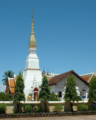 Phra That Choeng Chum, the symbol of Sakon Nakhon Province.